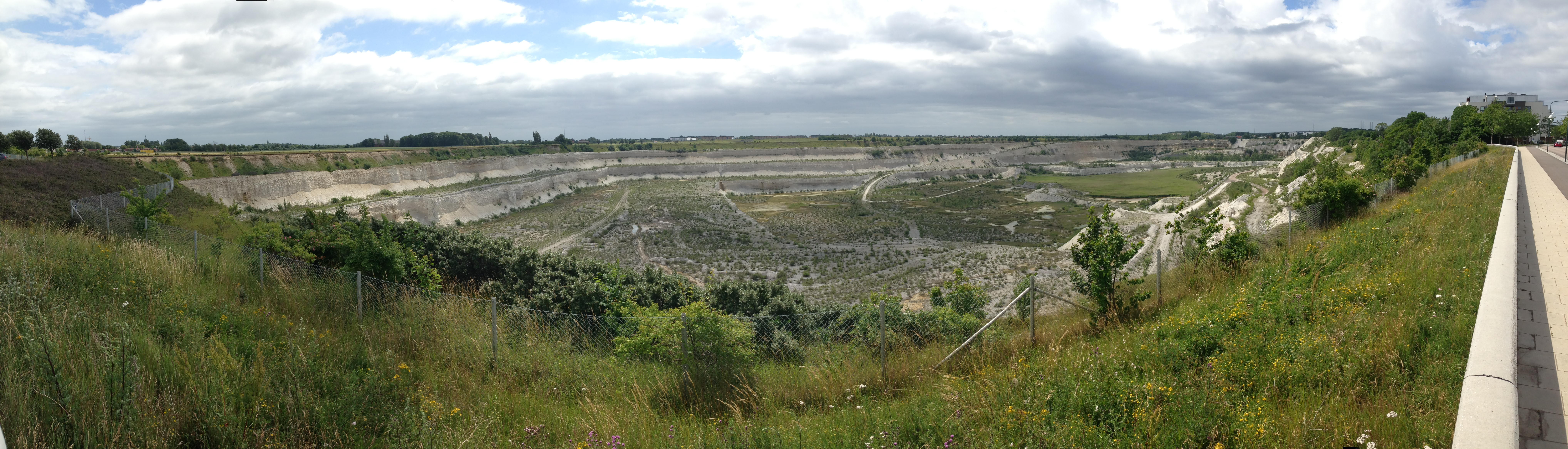 Limhamns kalkbrott (Limhamn limestone quarry), 2013